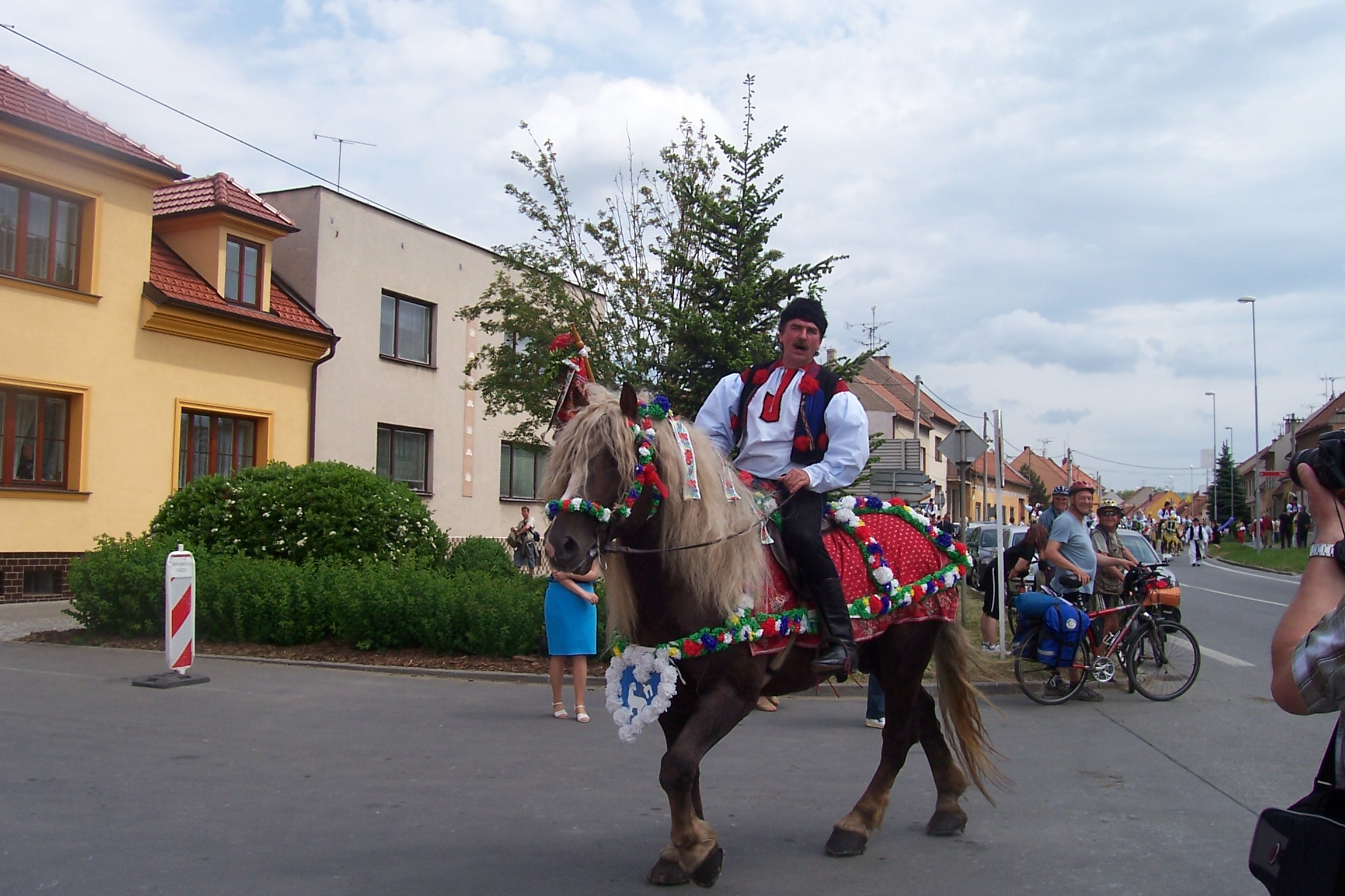 Kunovice in Uherské Hradiště District, Czech Republic. Ride of the Kings 2008.